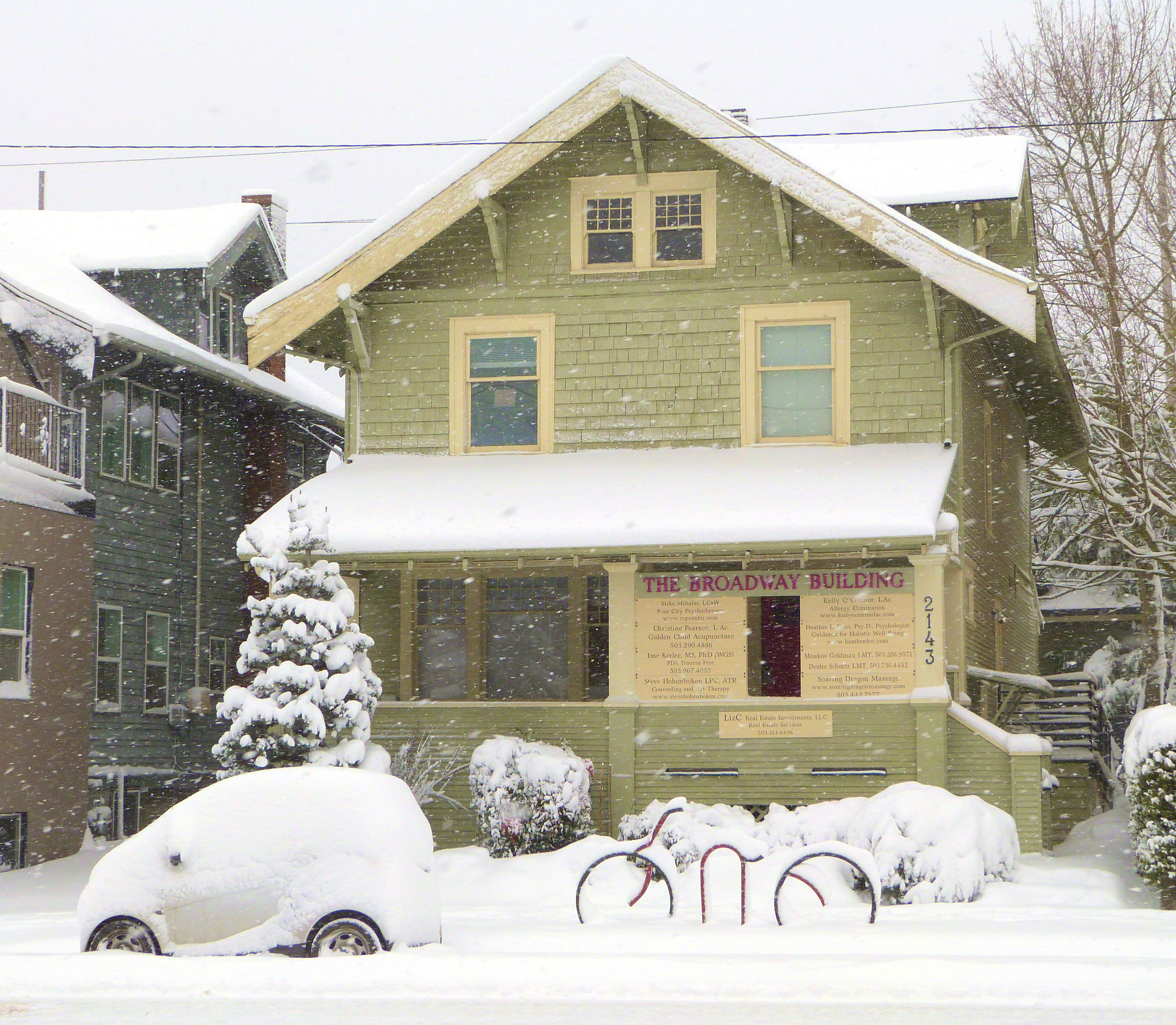 The historic house at 2143 Northeast Broadway Street (built ca. 1911) in Portland, Oregon, United States, is listed as a contributing resource in the Irvington Historic District. The historic district is listed on the U.S. National Register of Historic Places. As of the photo date, the building is in commercial use.